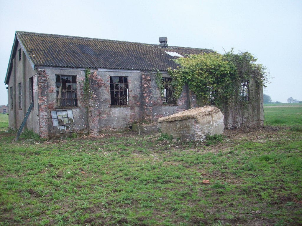 Stow Maries WW1 Airport, Cold Norton. Constructed 1916